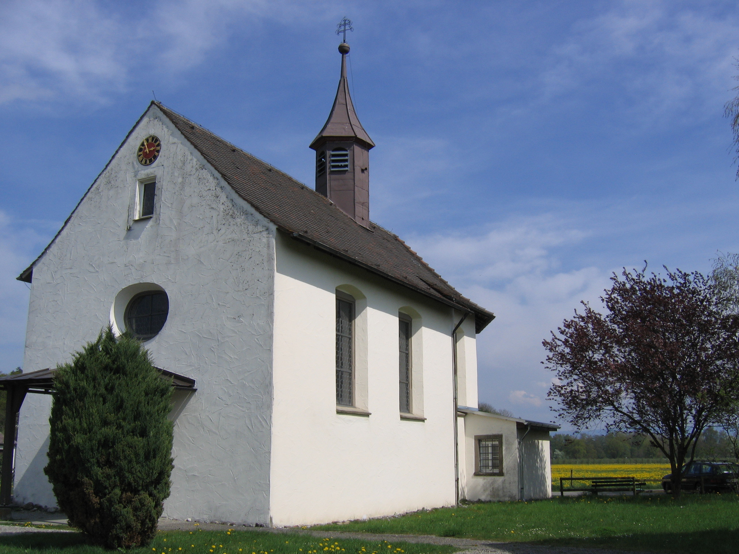 Germany - Baden-Württemberg - Bodenseekrreis -Kressbronn am Bodensee - Tunau: "St. Josefs-Chapel", built in 1659